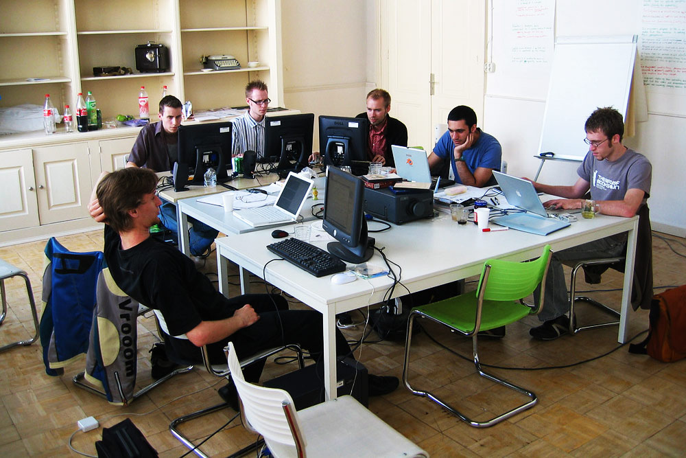 Photo of pre-project workshop of movie Elephants Dream, 4-8 July 2005